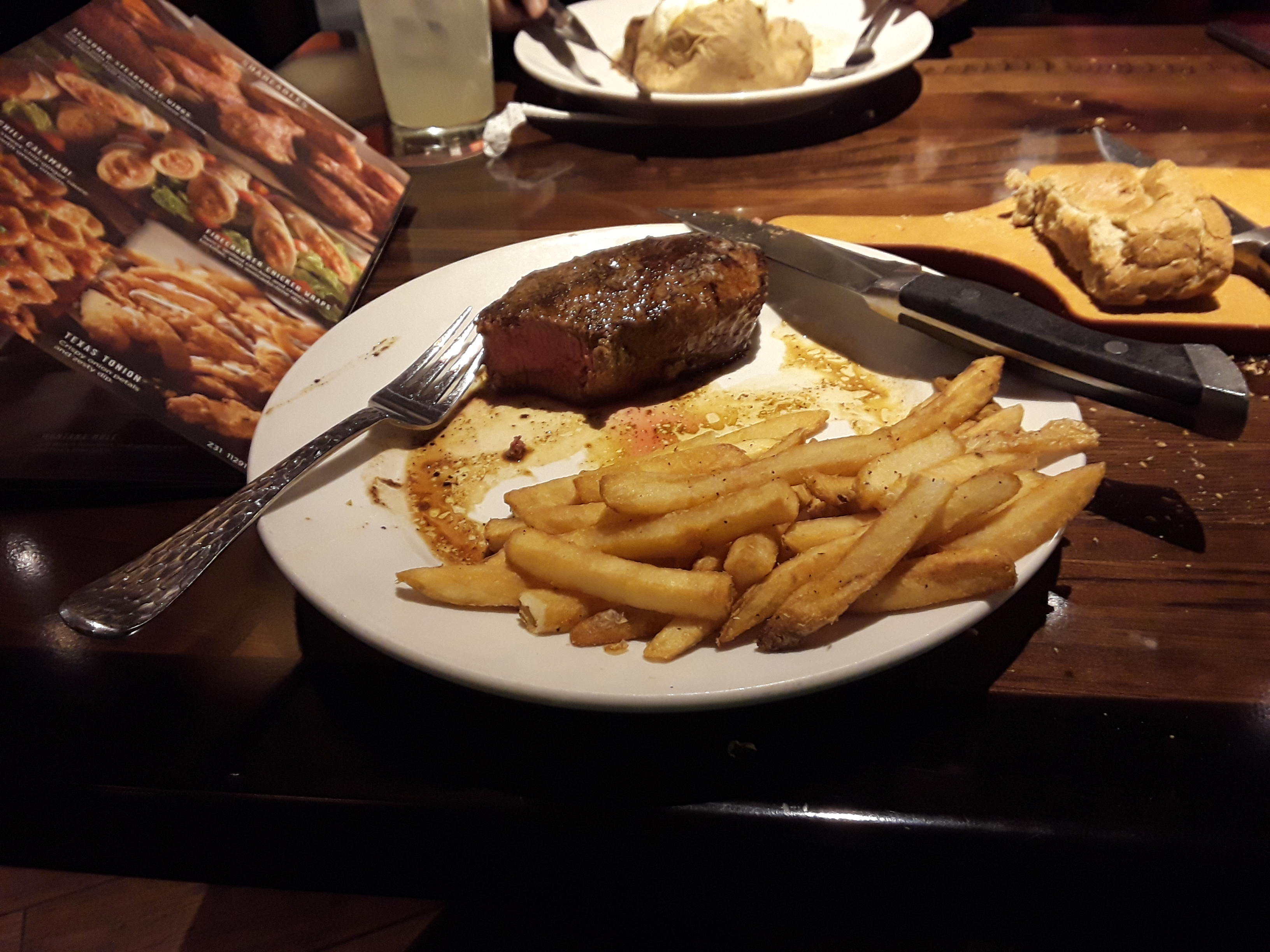 Sirloin steak and French fries from Longhorn Steakhouse